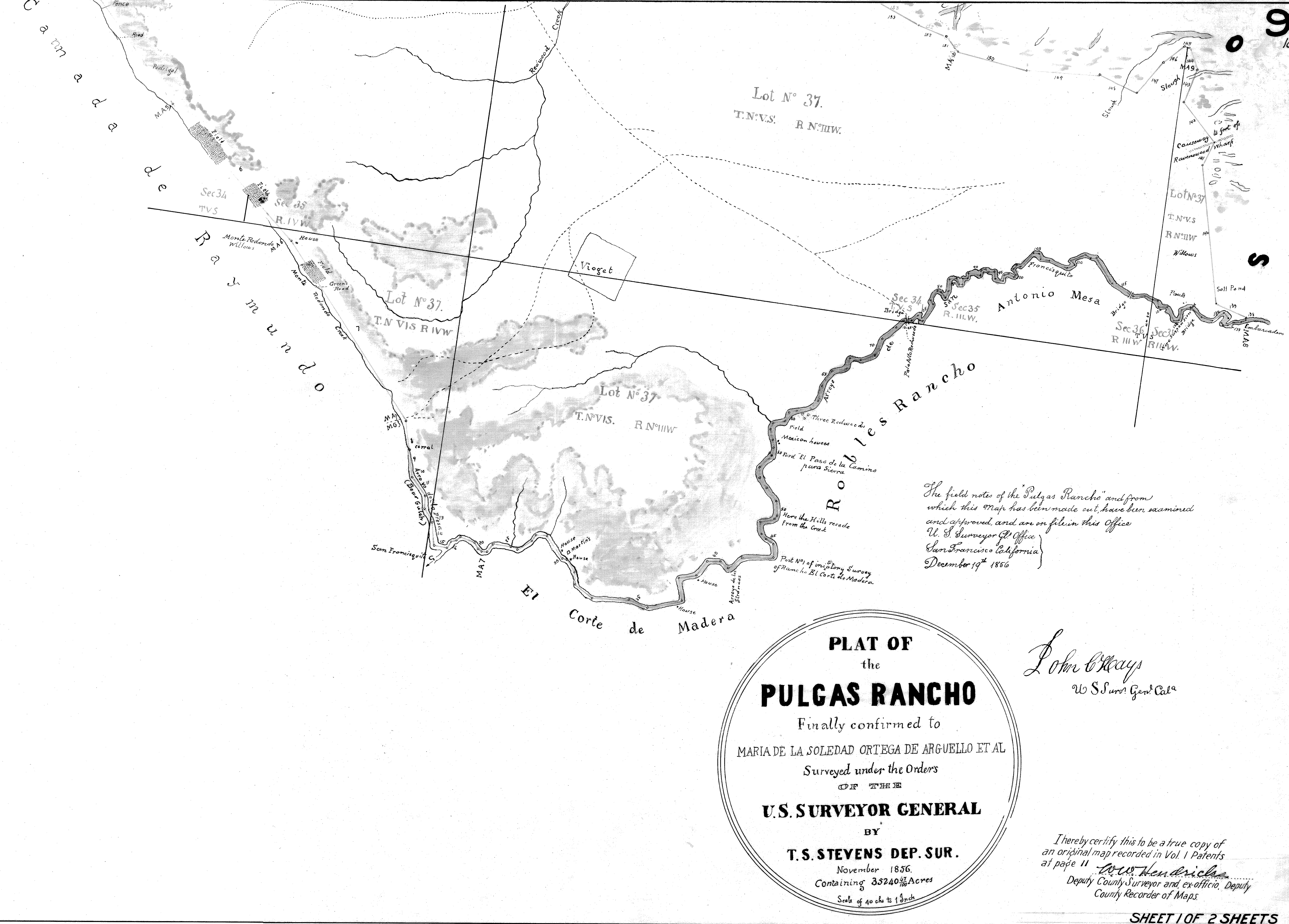 The original grant was described as "being of the extent of four leagues in length and one league in breadth, more or less".